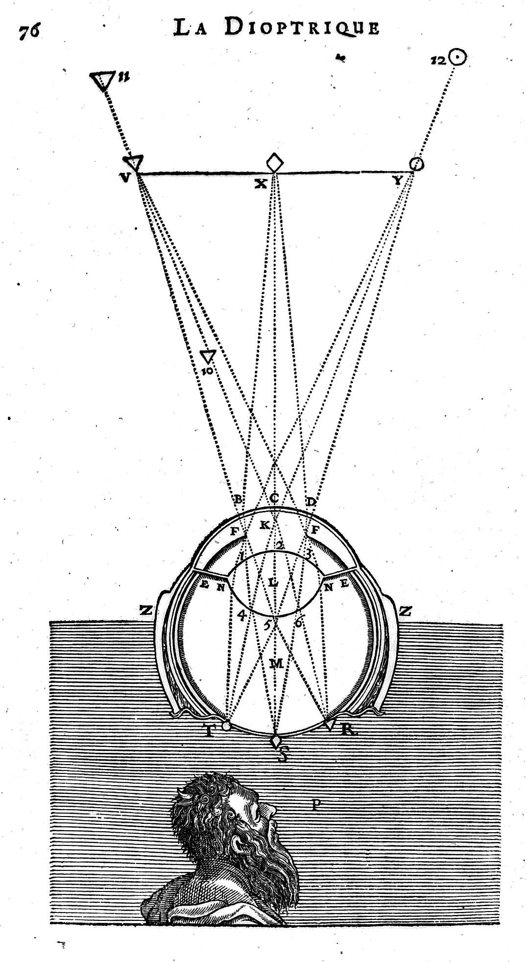 Diagram of ocular refraction. Rare Books Keywords: Optics; refraction, ocular: 1637; Philosophy; Mathematics; Anatomy; Rene Descartes; Rene Descartes